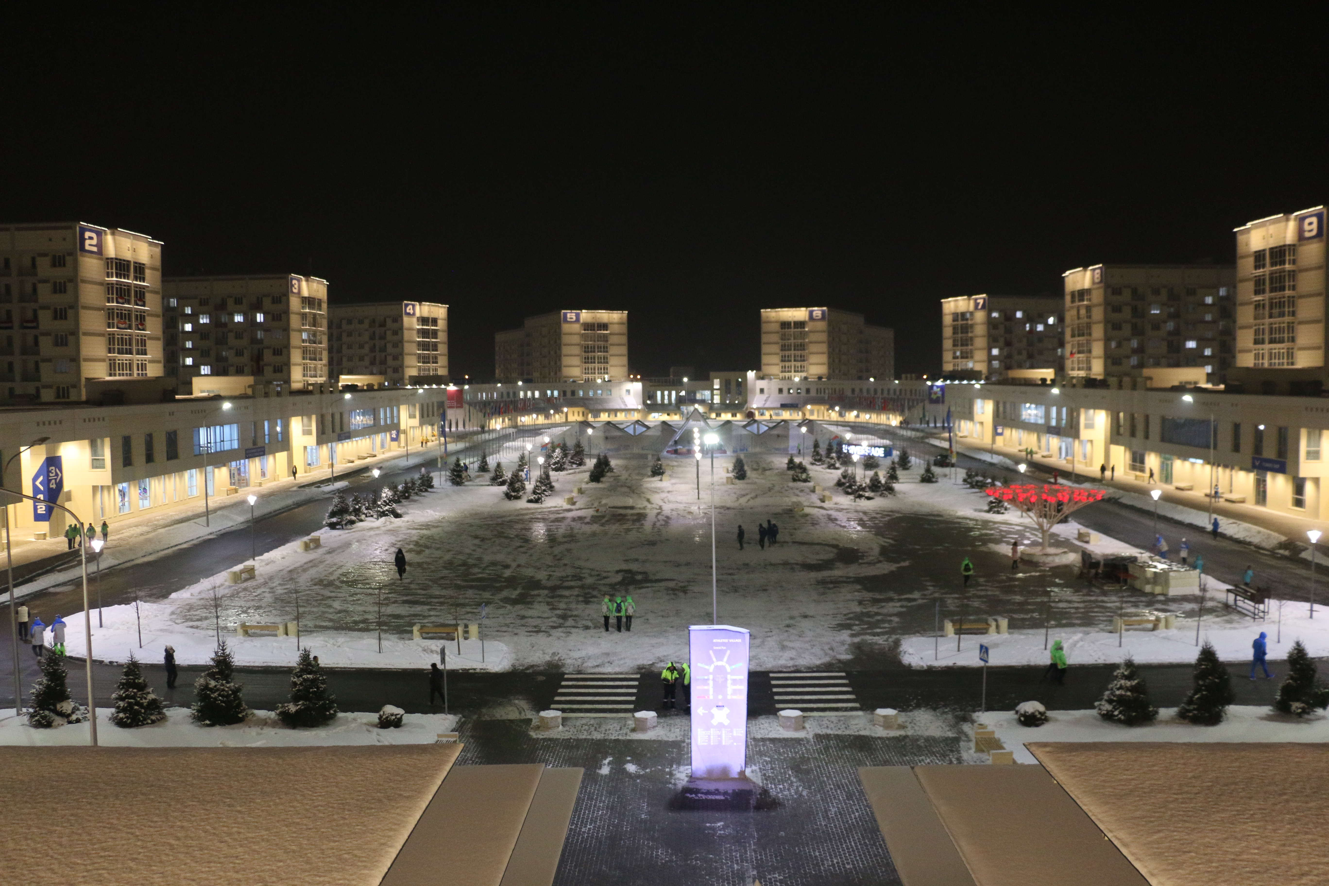 Universiade 2017. Athletic Village